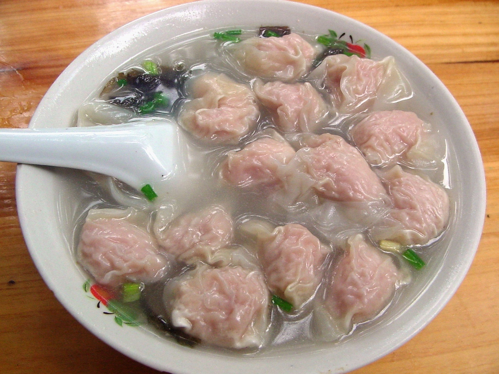 Bianrou or dumpling in soup of Shaxian, Fujian